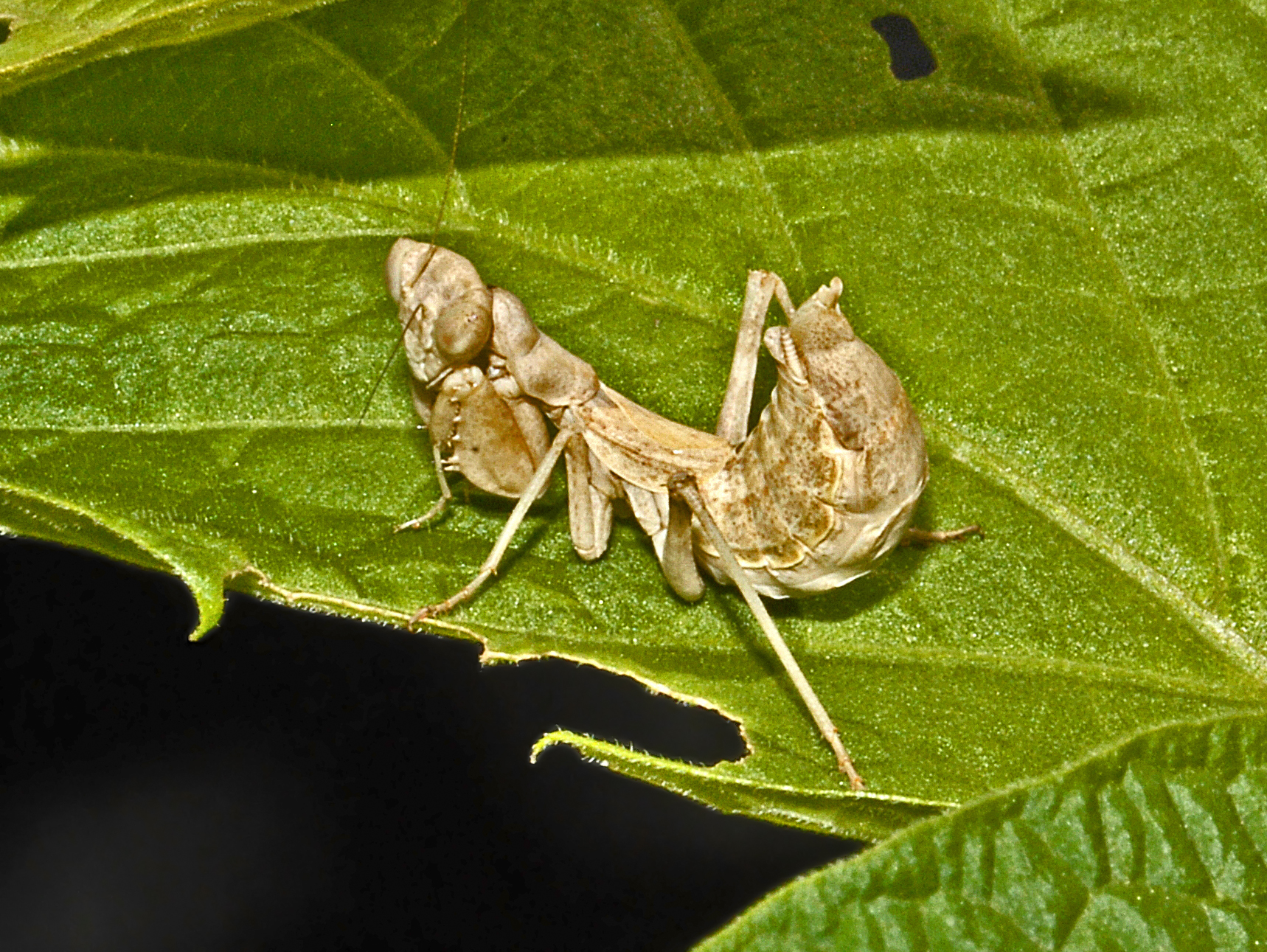 Ameles spallanzania. Female. Bogliasco, Genova, Italy